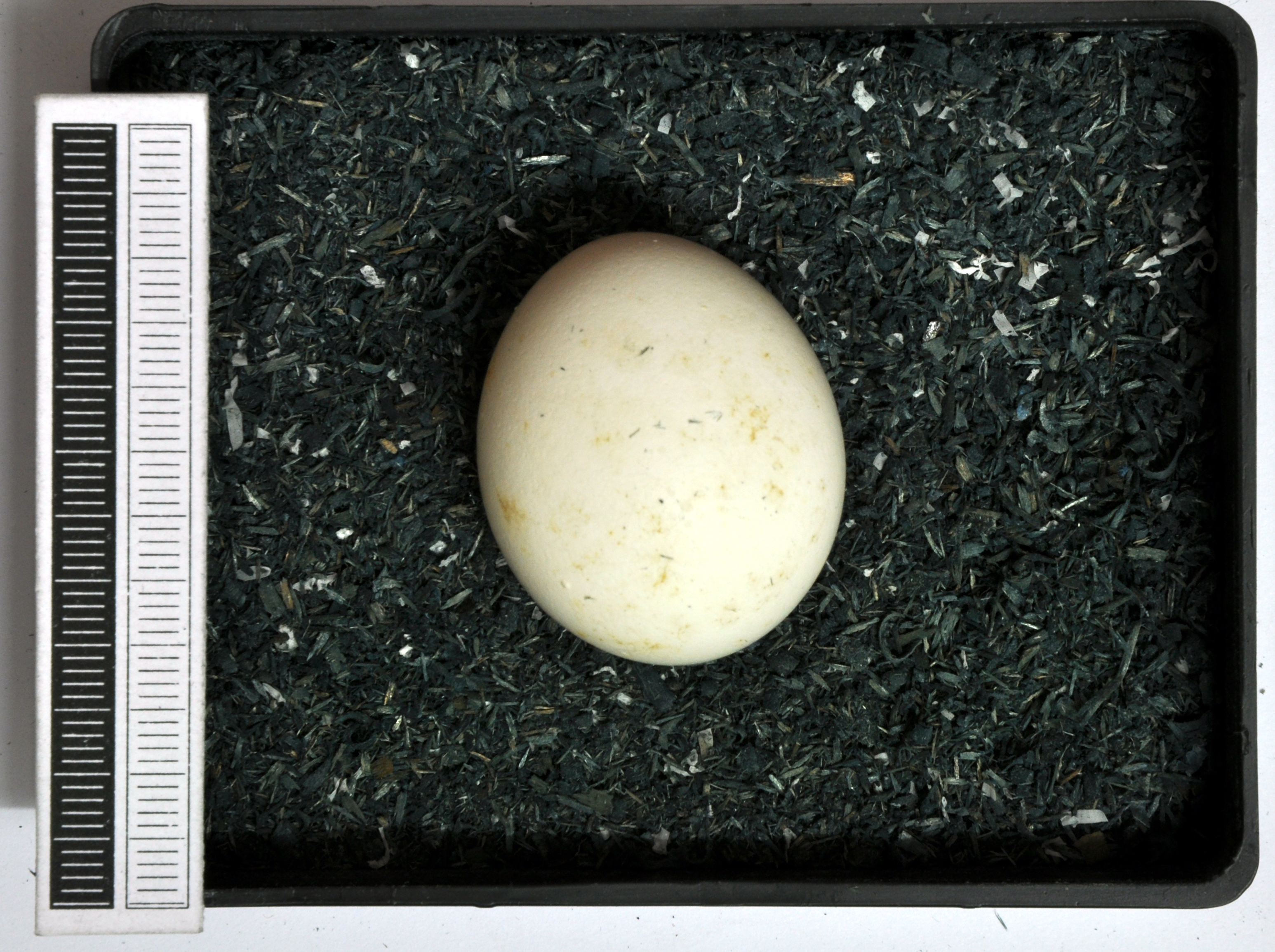 Little owl Athene noctua, egg, Coll. Museum Wiesbaden, leg. W. Abelmann